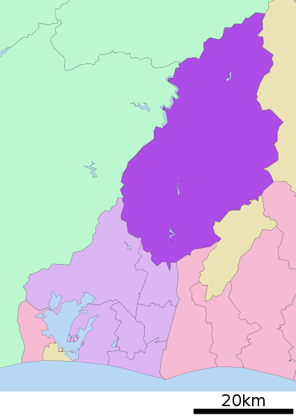 Location Map of Tenryū-ku, Hamamatsu